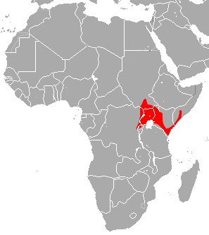 Eloquent Horseshoe Bat (Rhinolophus eloquens) range